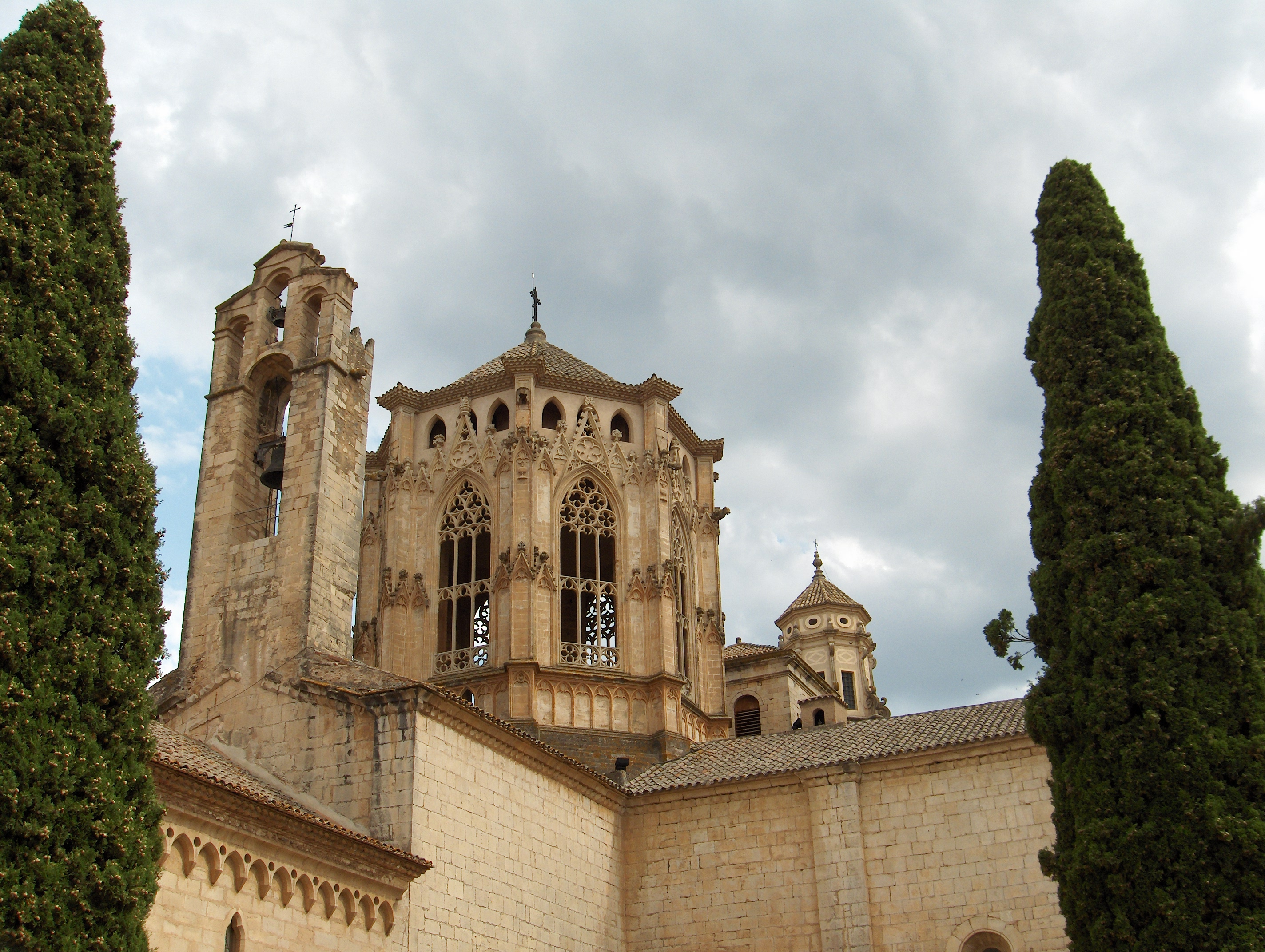 Poblet monastry in Catalunya, Spain; view of the 4 bell towers